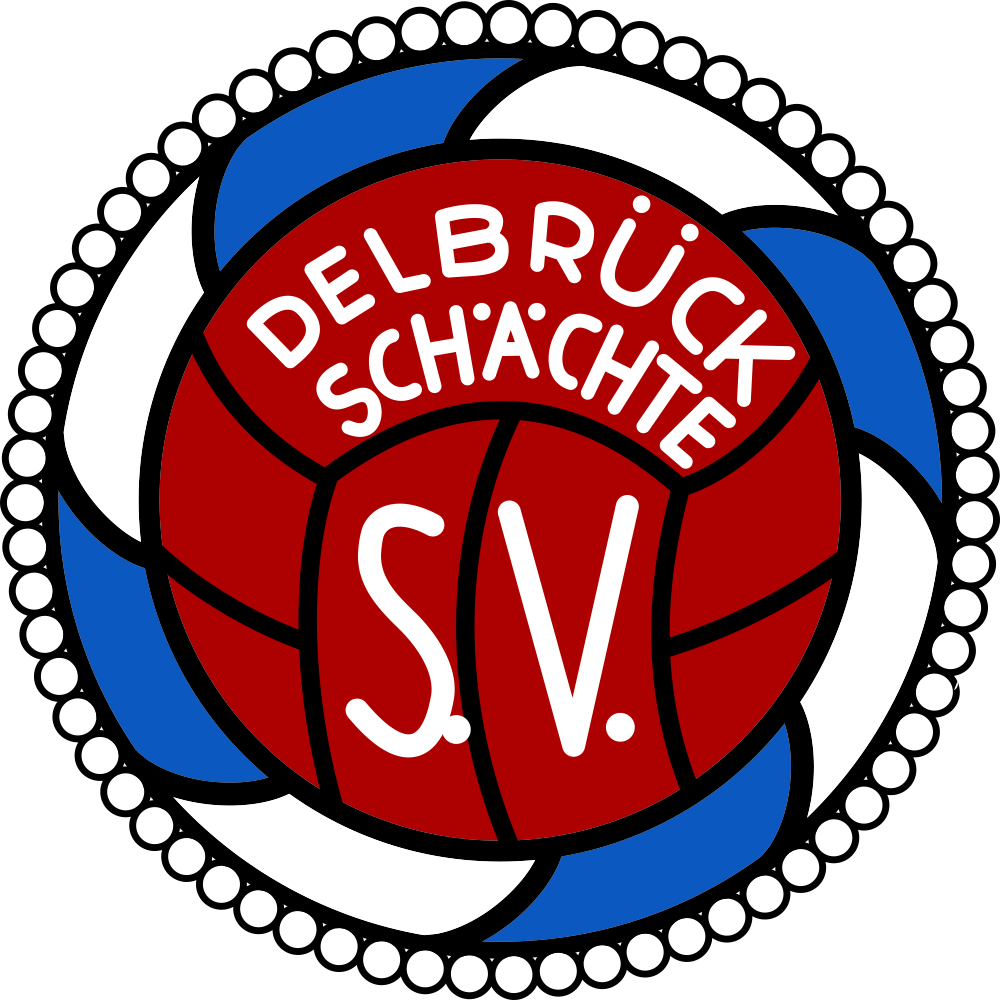 Logo of former german sportclub SV Delbrückschächte Hindenburg (1922-1945)